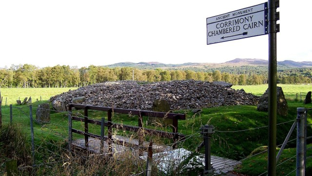 Corrimony Cairn